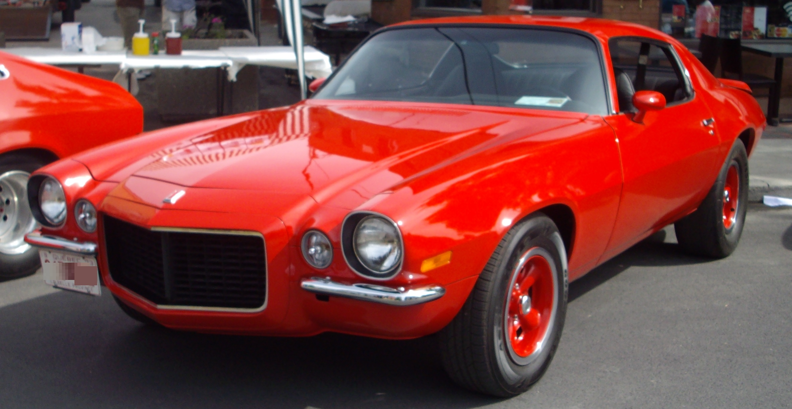 1973 Chevrolet Camaro photographed in Ste. Anne De Bellevue, Quebec, Canada at Cruisin' At The Boardwalk 2012.